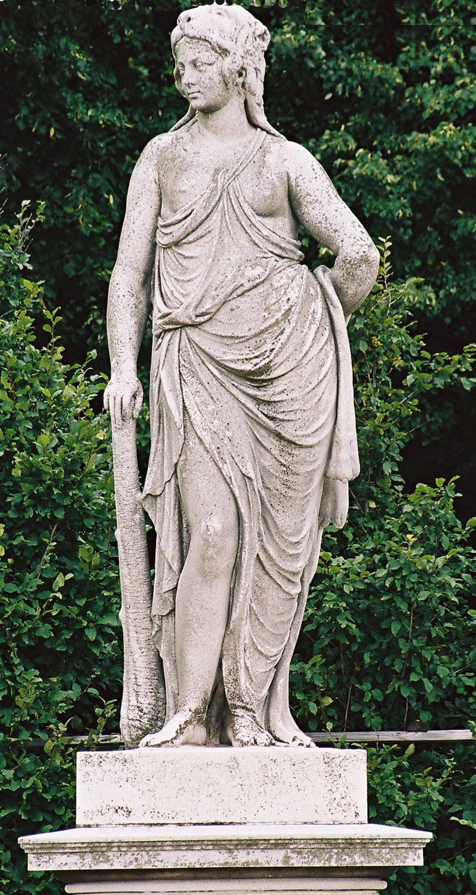 Vienna, Schönbrunn gardens, statue Omphale